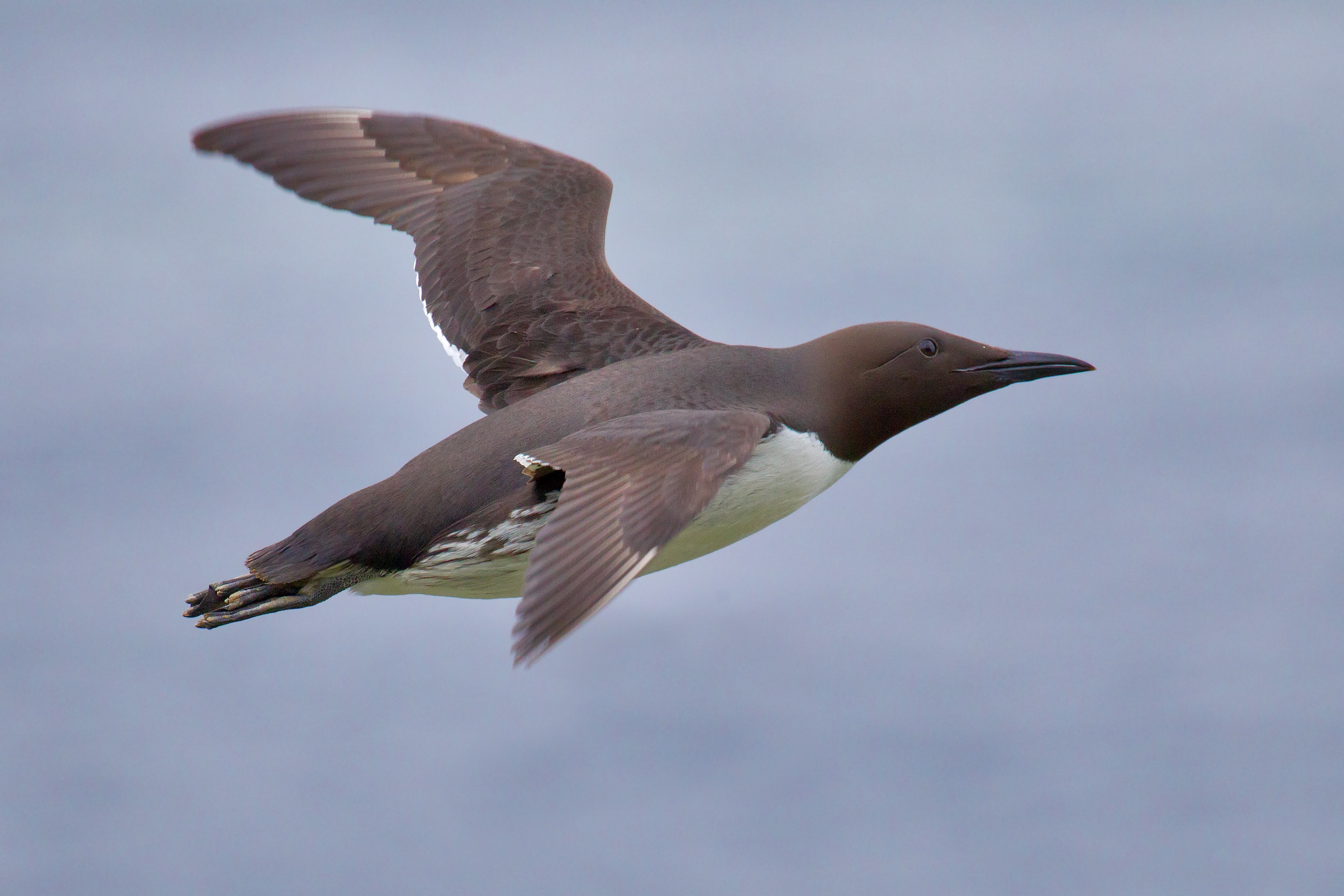 Common Murre